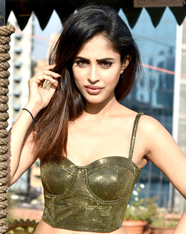 Priya Banerjee snapped at a photoshoot